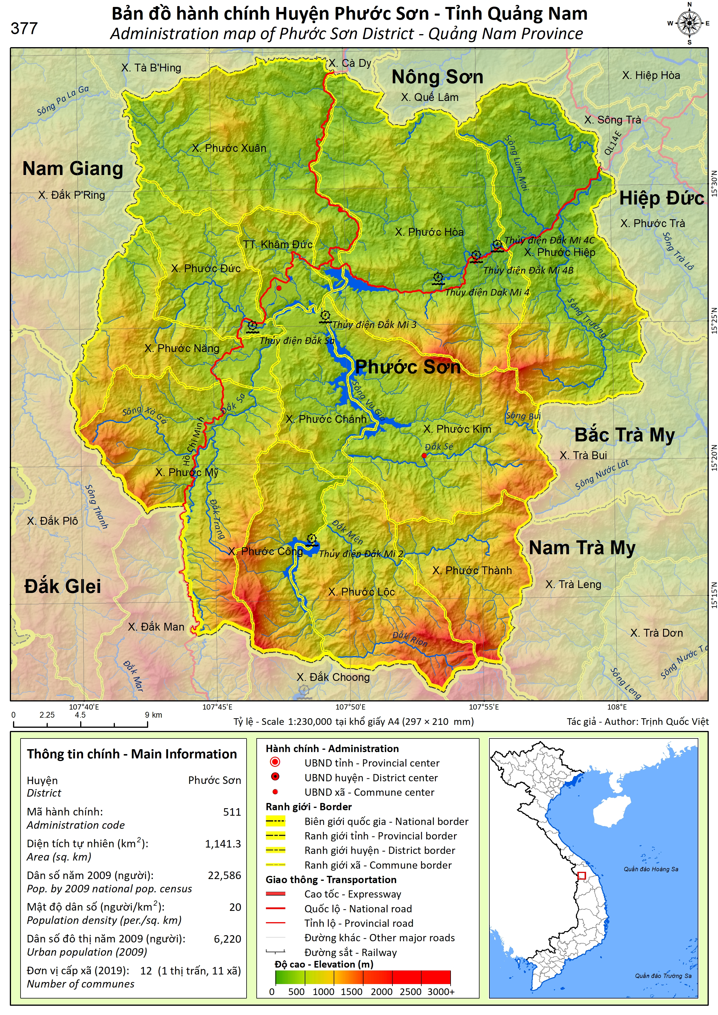 Administration map of Phuoc Son District, Quangnam Province